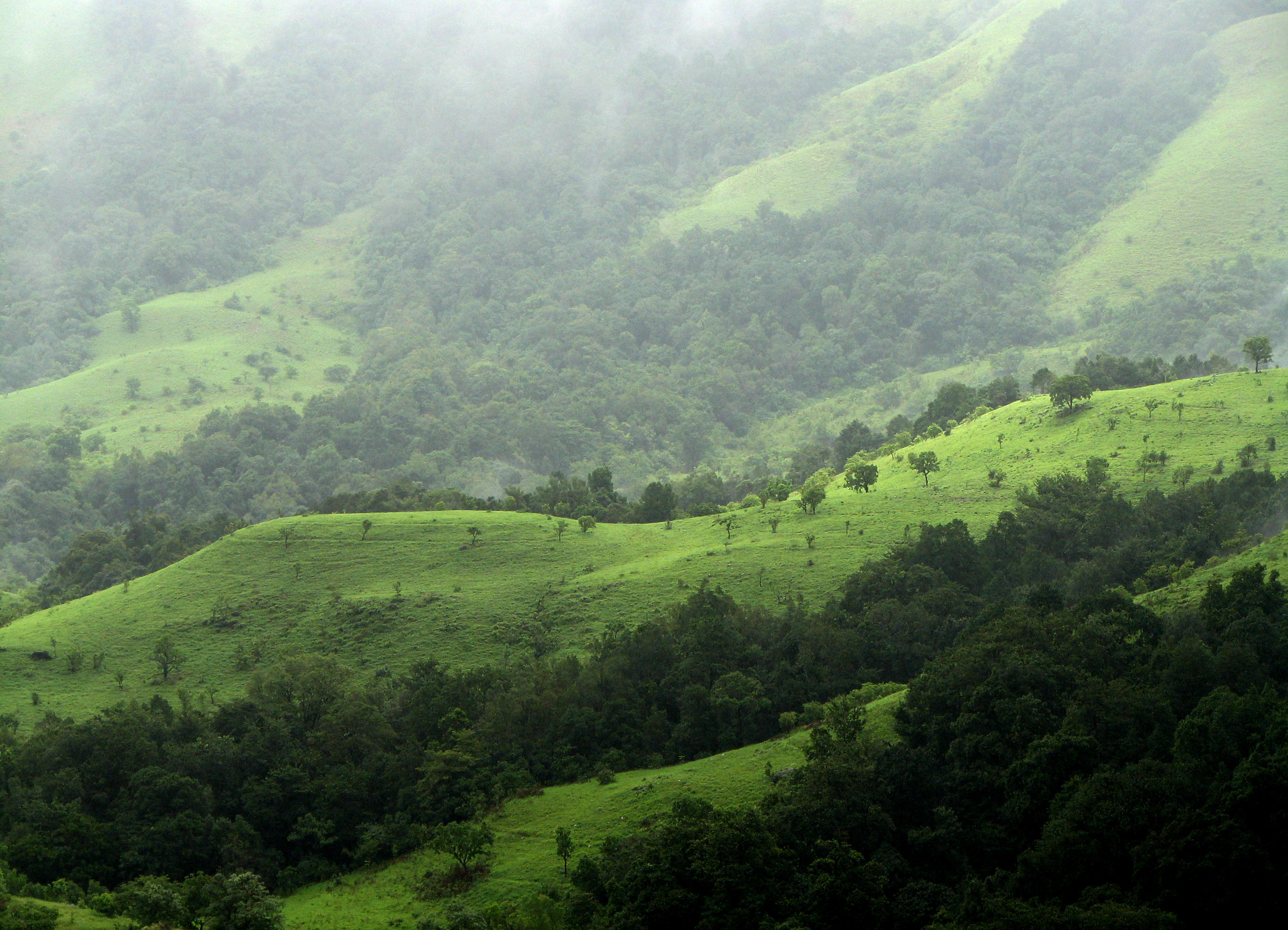 The Shola Grasslands and forests in the Kudremukh National Park, Western Ghats, India. The Park is about 600 Sq. km in area and is one of the 25 biodiversity hot spots in the world. View Large on Black Stop Mining ! Save Our Precious Wildlife & Nature!